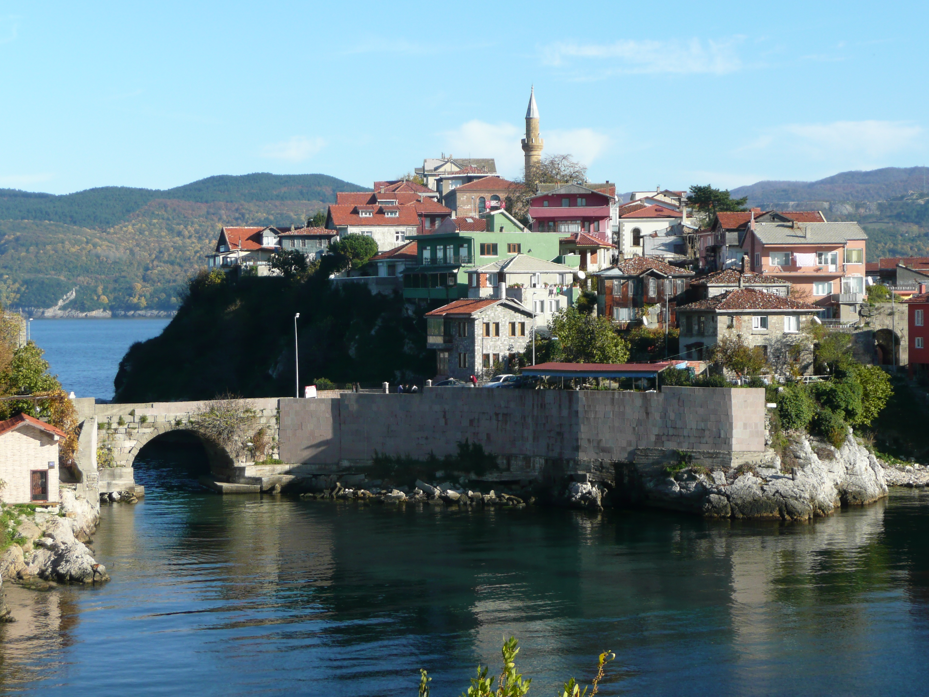 Photographs from Amasra